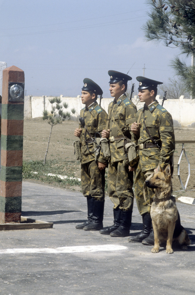 “Border Guards ready for patrol”. Border Guards of the Stepan Karpov station stand ready for a patrol. The border station was named after a hero fallen in an outnumbered firefight against Basmach insurgents in 1933.